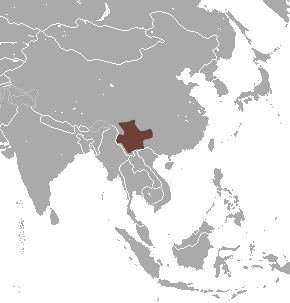 Yunnan Hare (Lepus comus) range